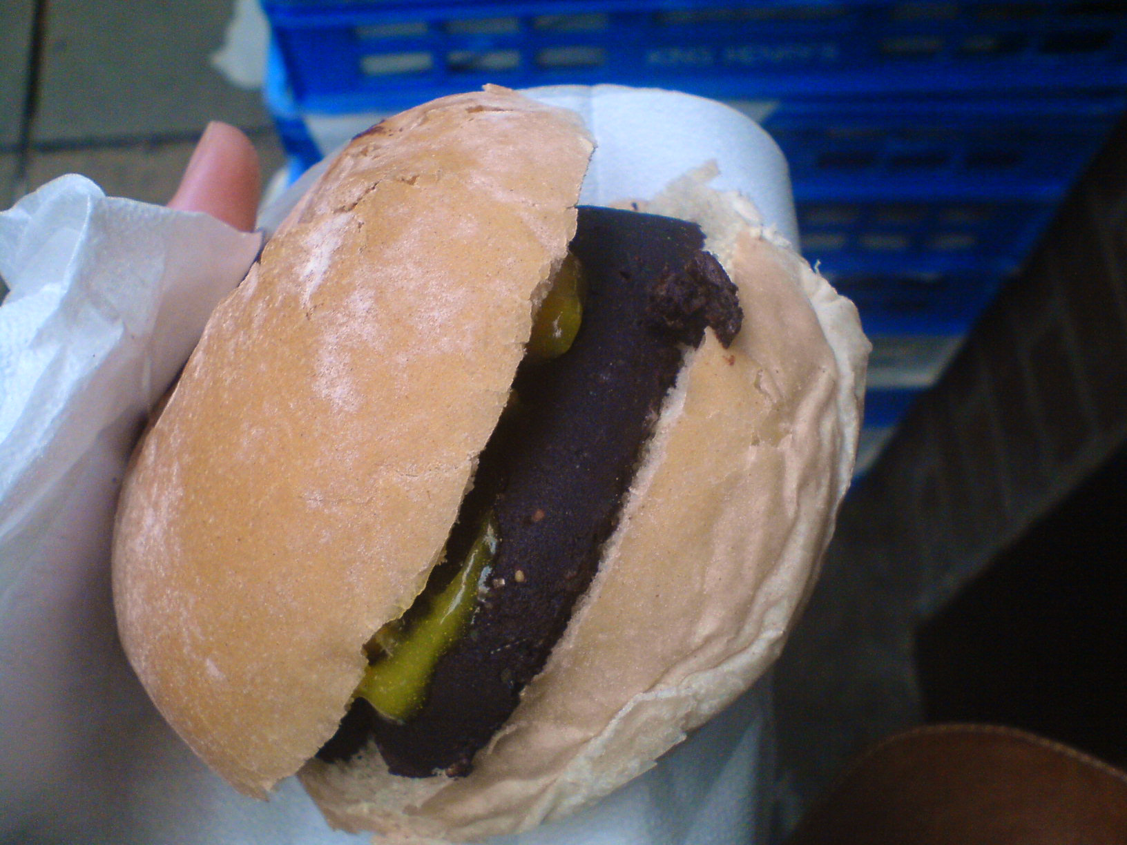 Black Pudding in a barm cake at Bury Market